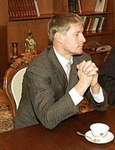 From Putin's meeting with the members of Russian tennis team.